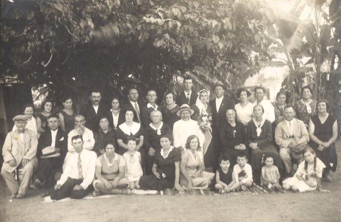 Settlements in Israel